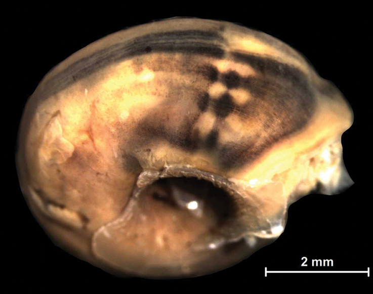 Photo of Endothyrella plectostoma with shell removed showing the coloration of the mantle. Locality: Sikhim, leg. Godwin-Austen, NHMUK 1903.7.1.451.